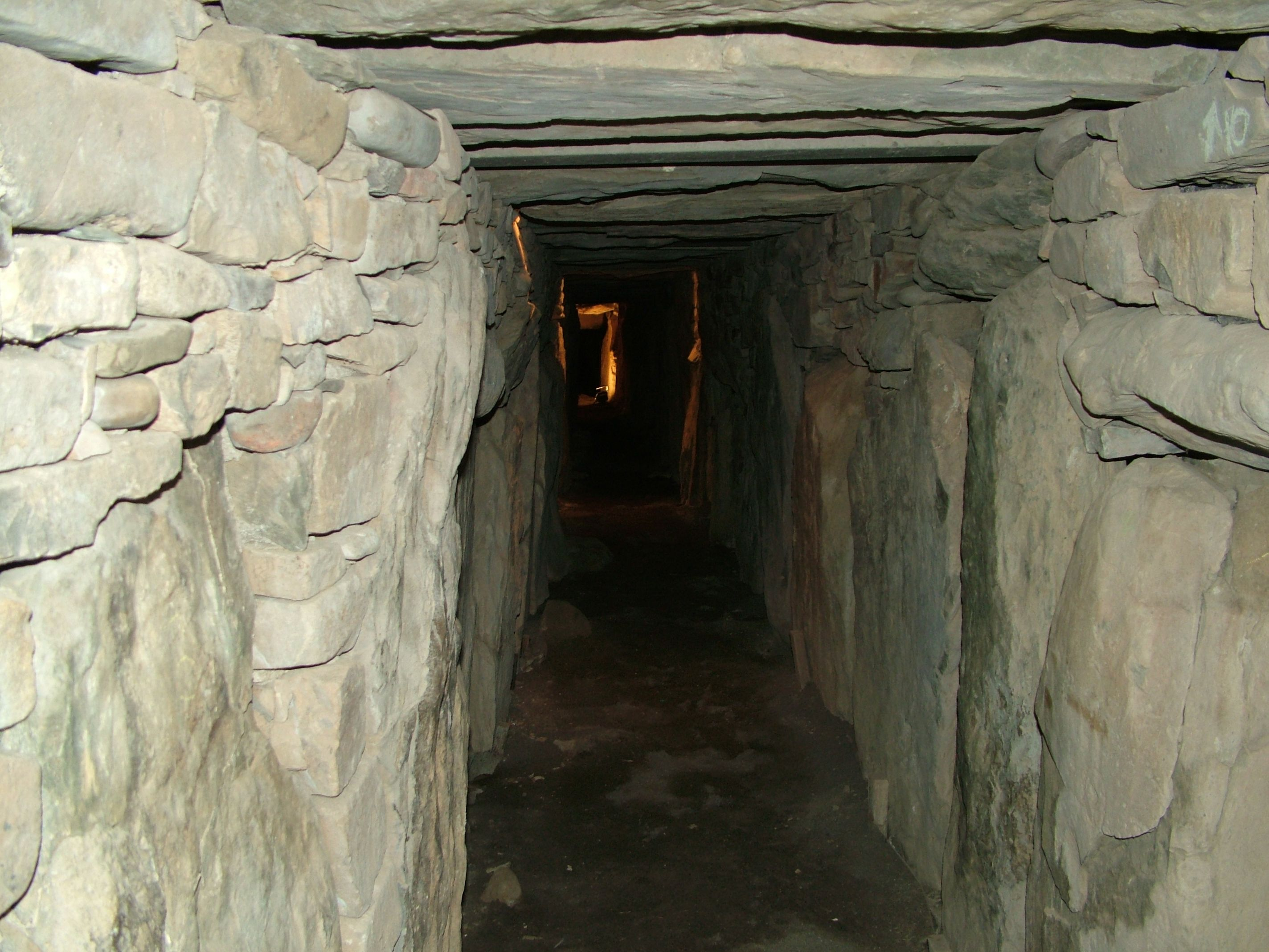 Knowth, Ireland, Blick in den Gang